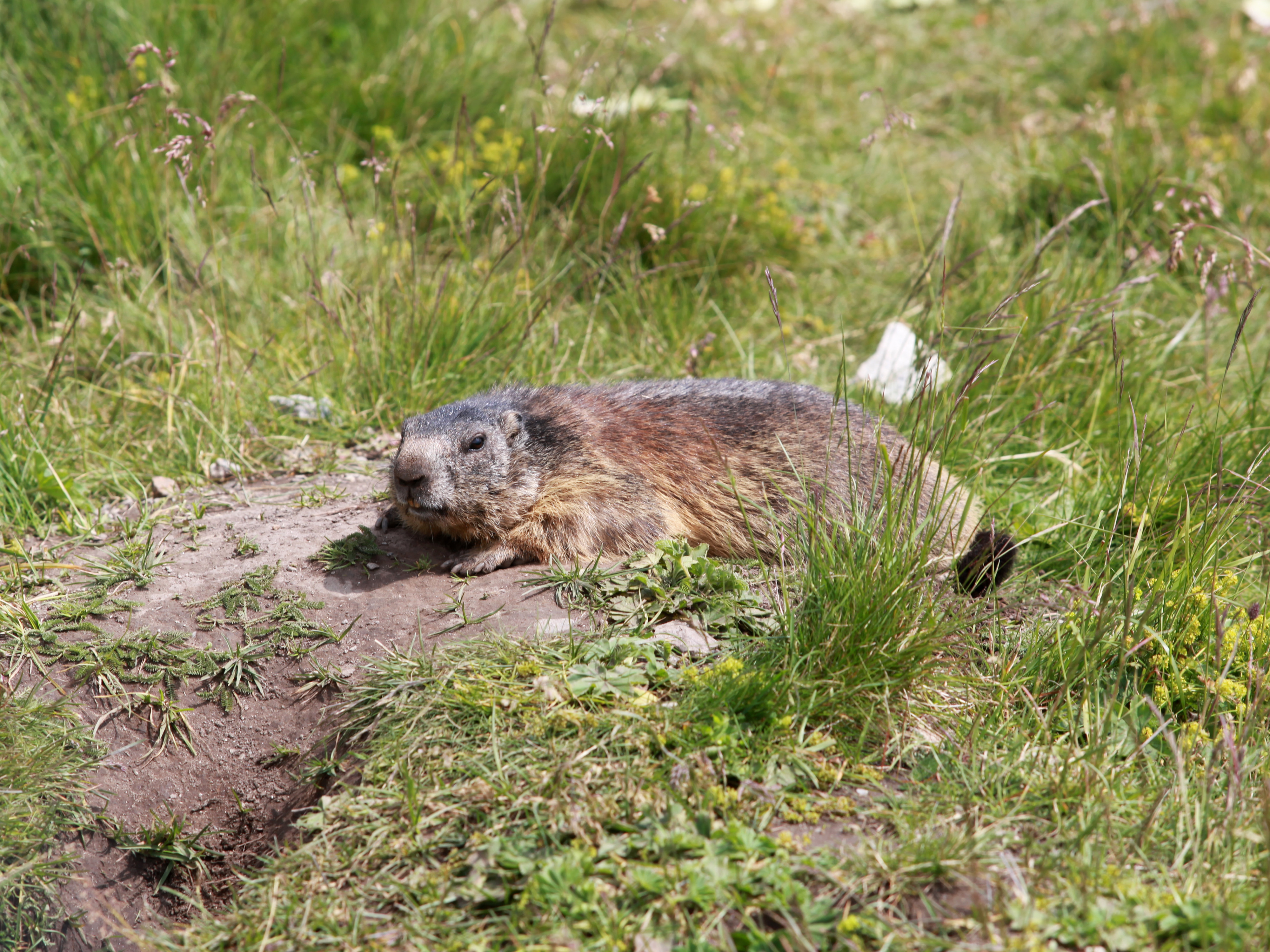 Alpine Marmot at the Grimselpass.